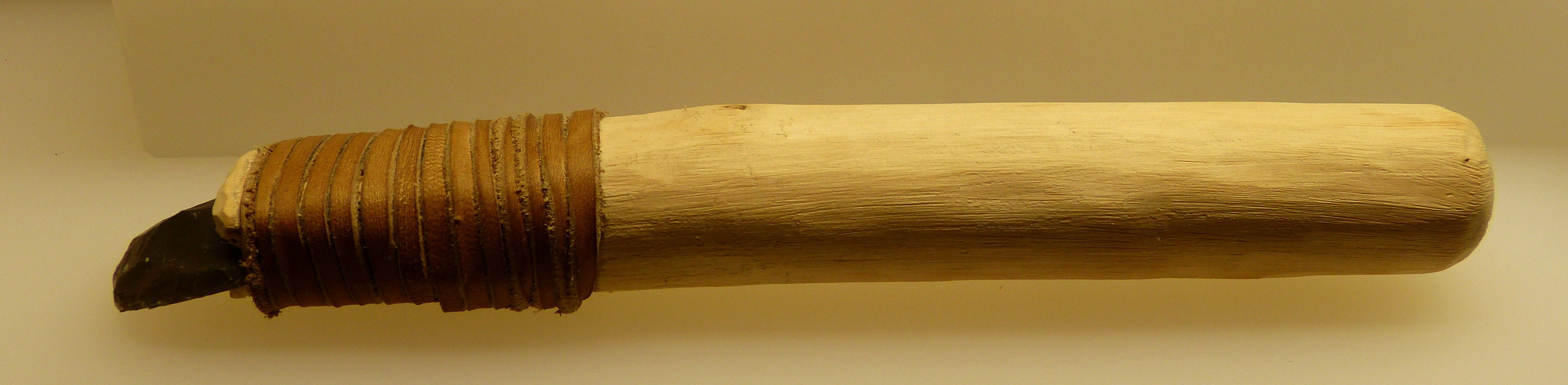 Brandenburg an der Havel ( Germany ) . Archaeological Museum of the state of Brandenburg - Stone Age Gallery: Reconstruction of a mesolithic scraper.